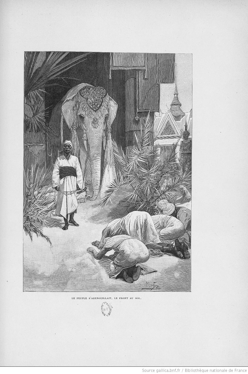 Mémoires d'un éléphant blanc. Illustrations by alfons Mucha book by Judith Gautier (1894)